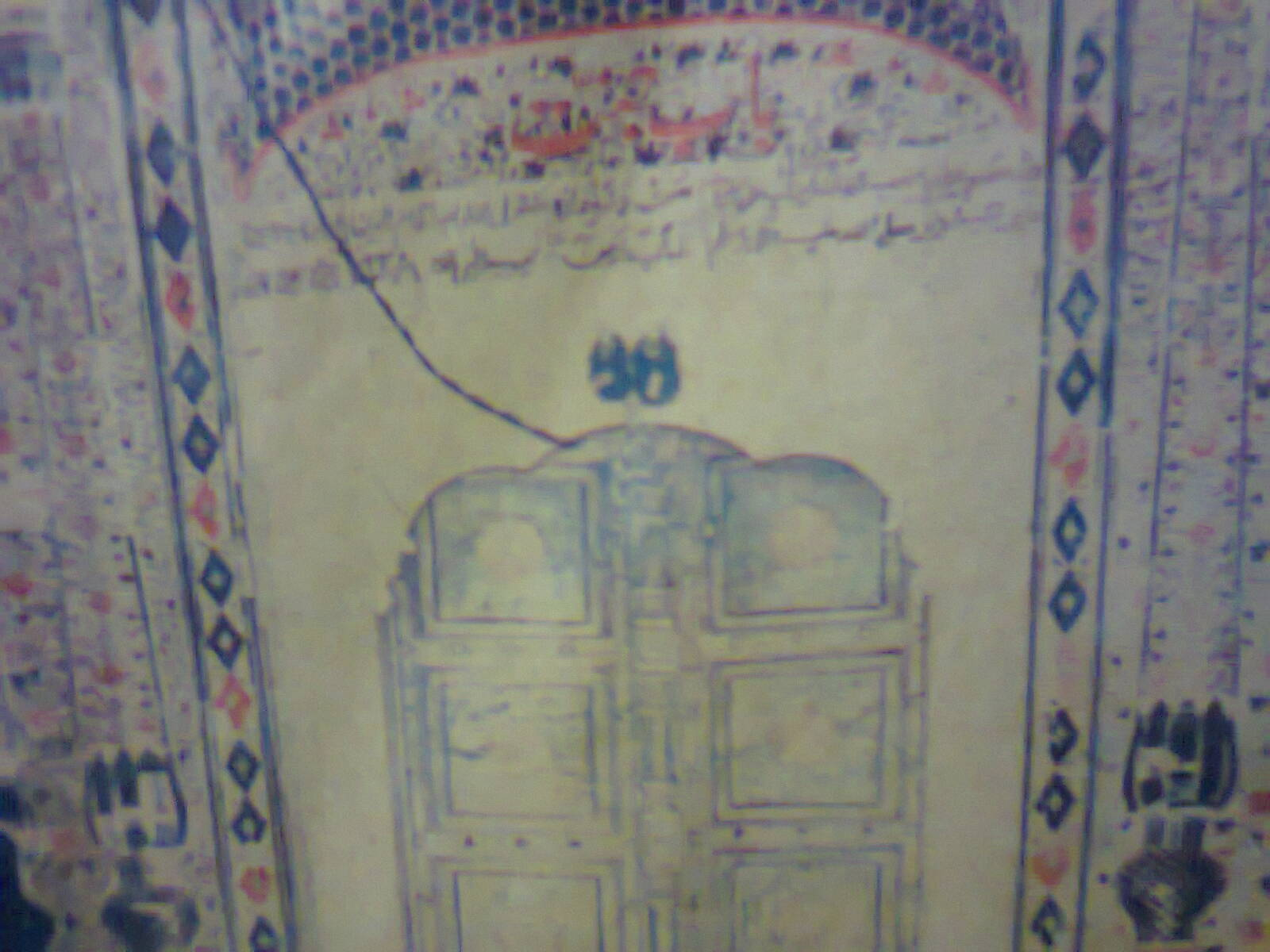 Shrine door 'baheshti darwaza' photo, Baba Farid shrine at Pakpattan a holy Sufi saint